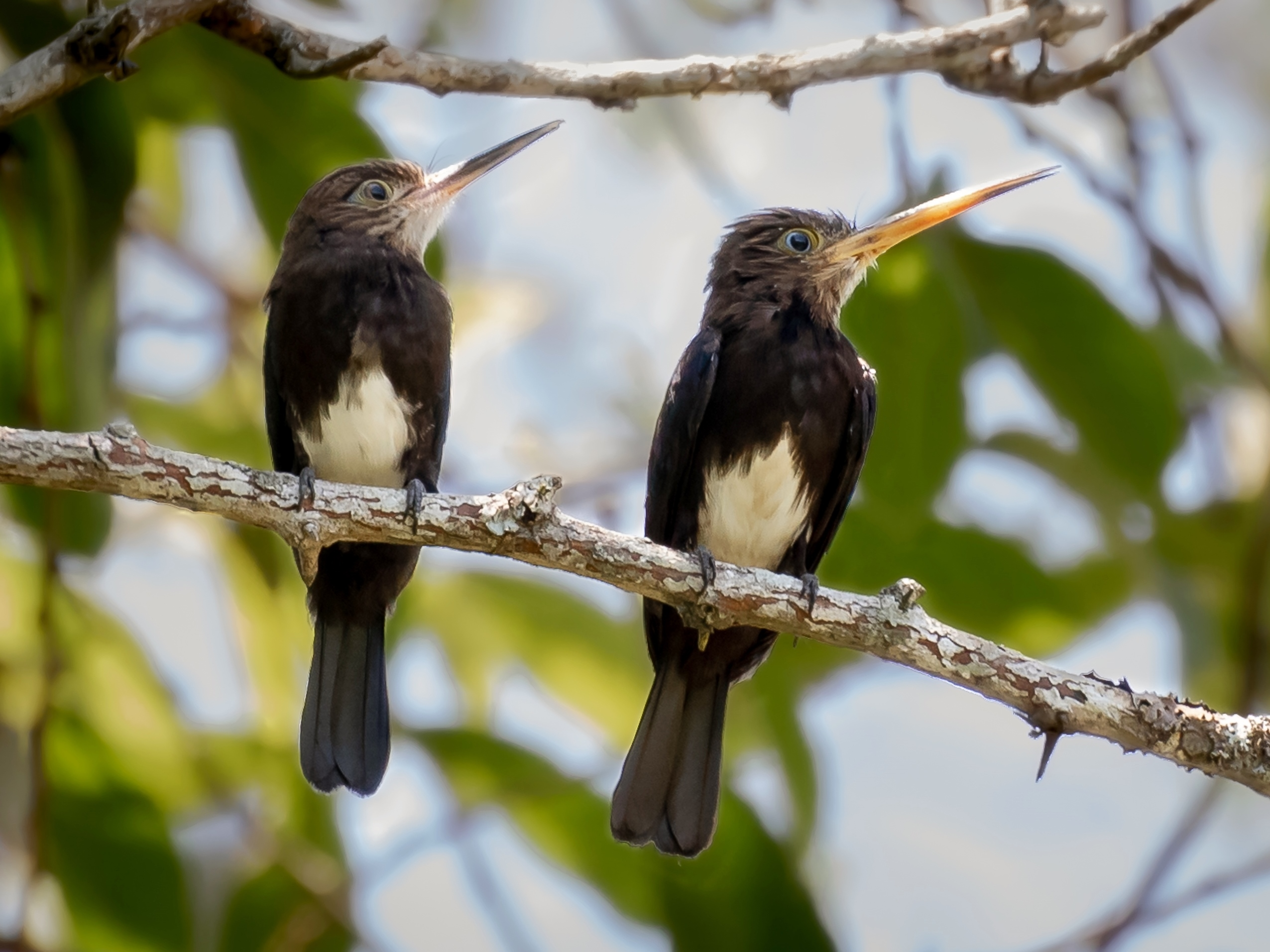 Brown jacamar; Olimpia, São Paulo, Brazil